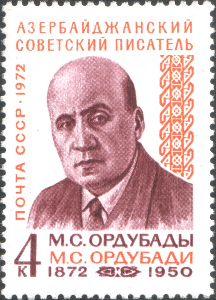 Russia 1972 Sc#3974 M S Ordubady Azerbaijan Writer MNH